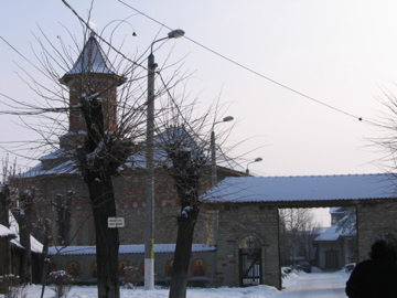 Precista Church, Bacău, Romania 01